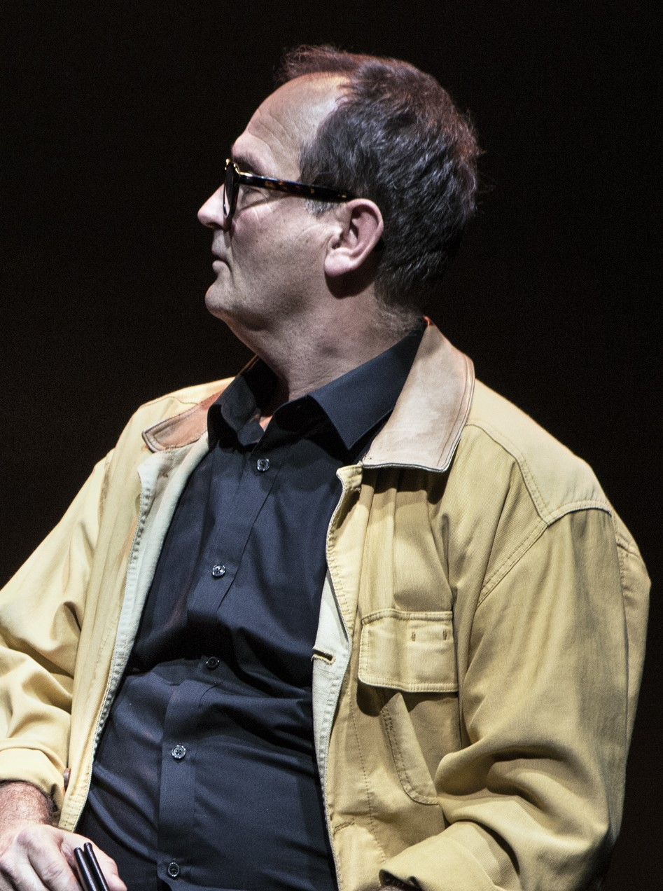 Niels Ellegaard in the Copenhagen theater Folketeatret's production of the play "Livet, hvor svært ka' det være?" by Vase & Fuglsang.